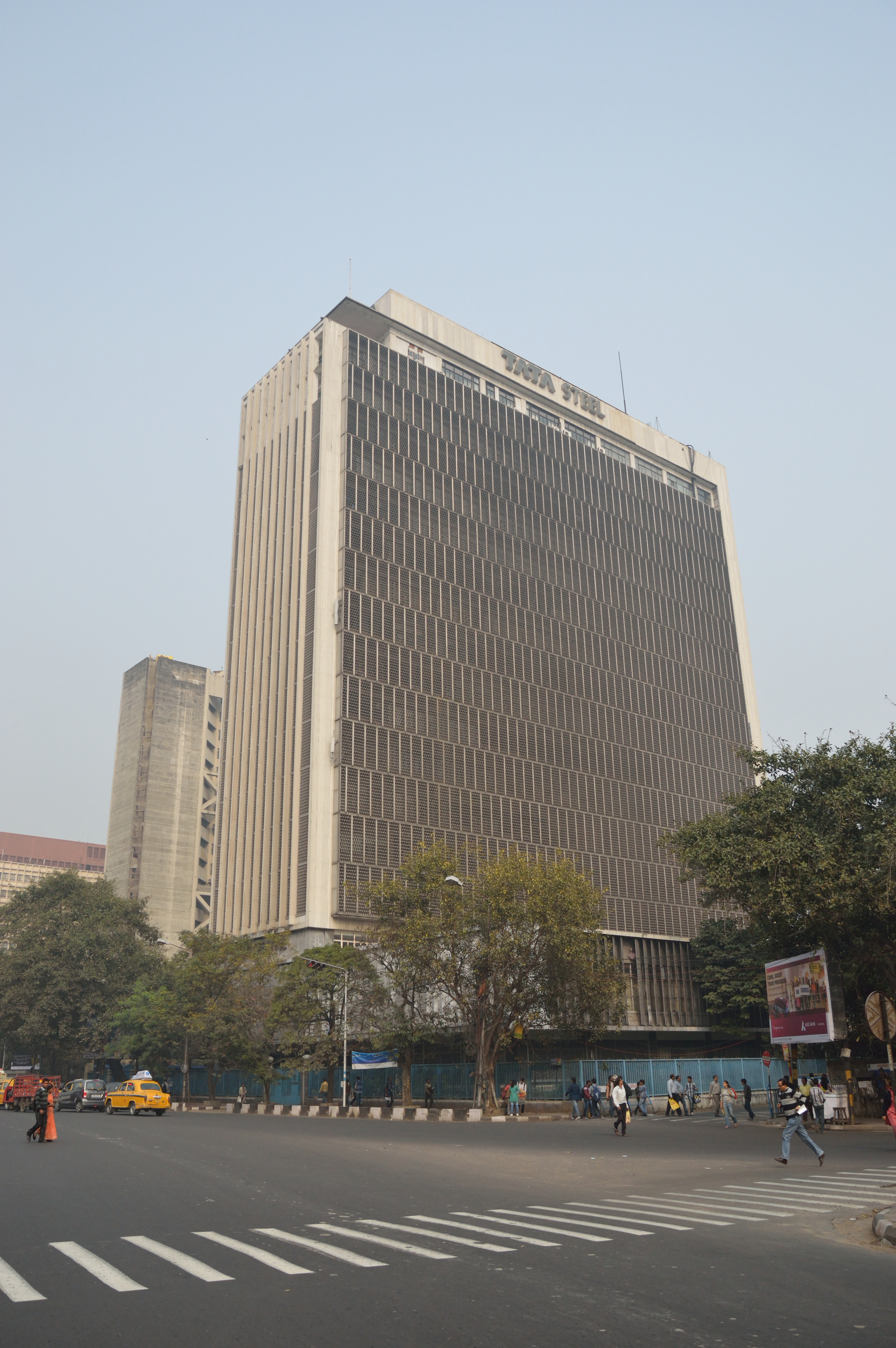 Skyscraper on the Jawaharlal Nehru road, Kolkata.